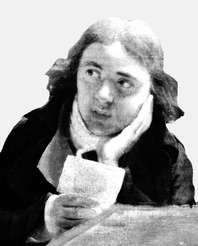 Portrait of Charles Meynier